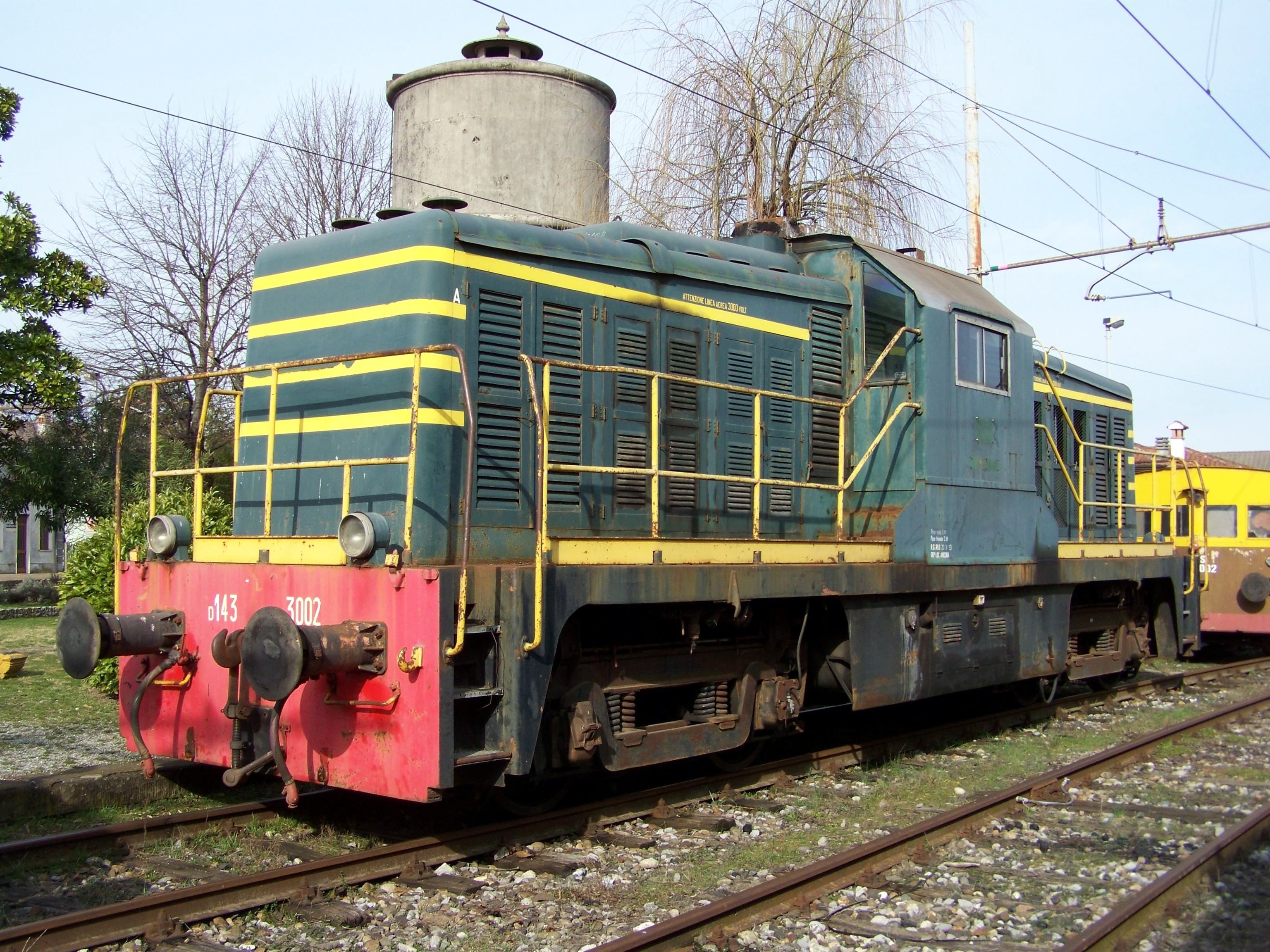 Shunter FS D.143.3002, property of Ferrovie Turistiche Italiane (FTI), at Palazzolo sull'Oglio train station.